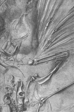 Archaeopteryx